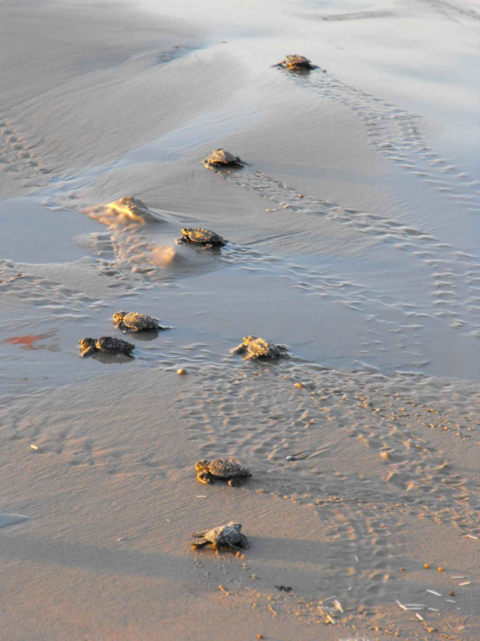 Image title: Baby sea turtles make their way toward the water Image from Public domain images website